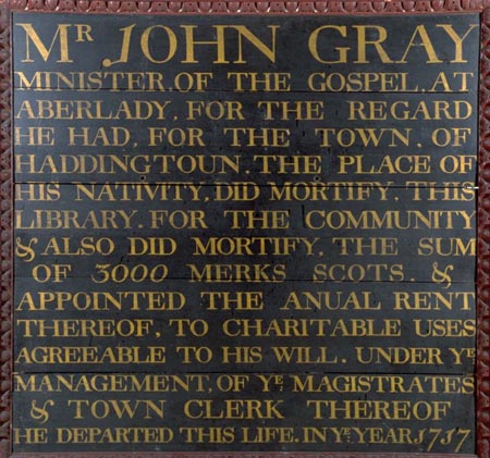 Board currently on display in John Gray Centre Haddington taken from the original library site founded by his bequest to the people of Haddington. Dating from 1717